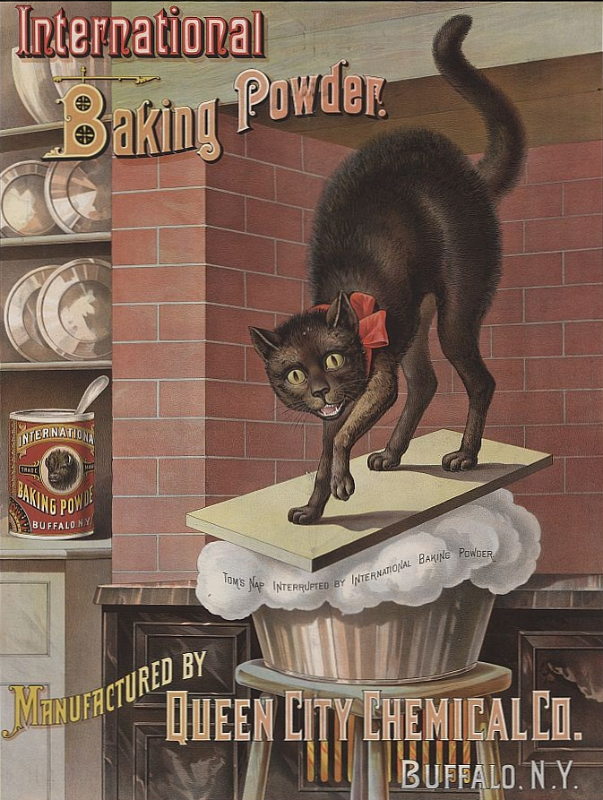 Baking powder advertisement 1885. International baking powder. Manufactured by Queen City Chemical Co., Buffalo, N.Y. Advertisement for International brand baking powder, showing a cat awakened by bread rising. Caption: "Tom's nap interrupted by International baking powder."